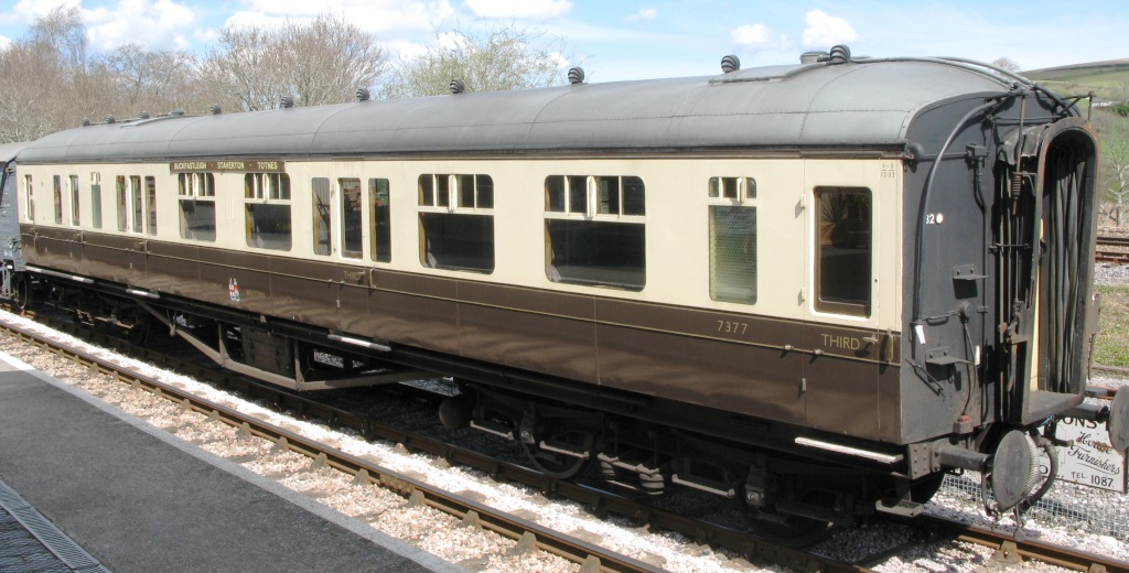 Great Western Railway coach number 7377, a diagram E164 Brake Composite built c.1948 (Lot no. 1690). Preserved on the South Devon Railway.